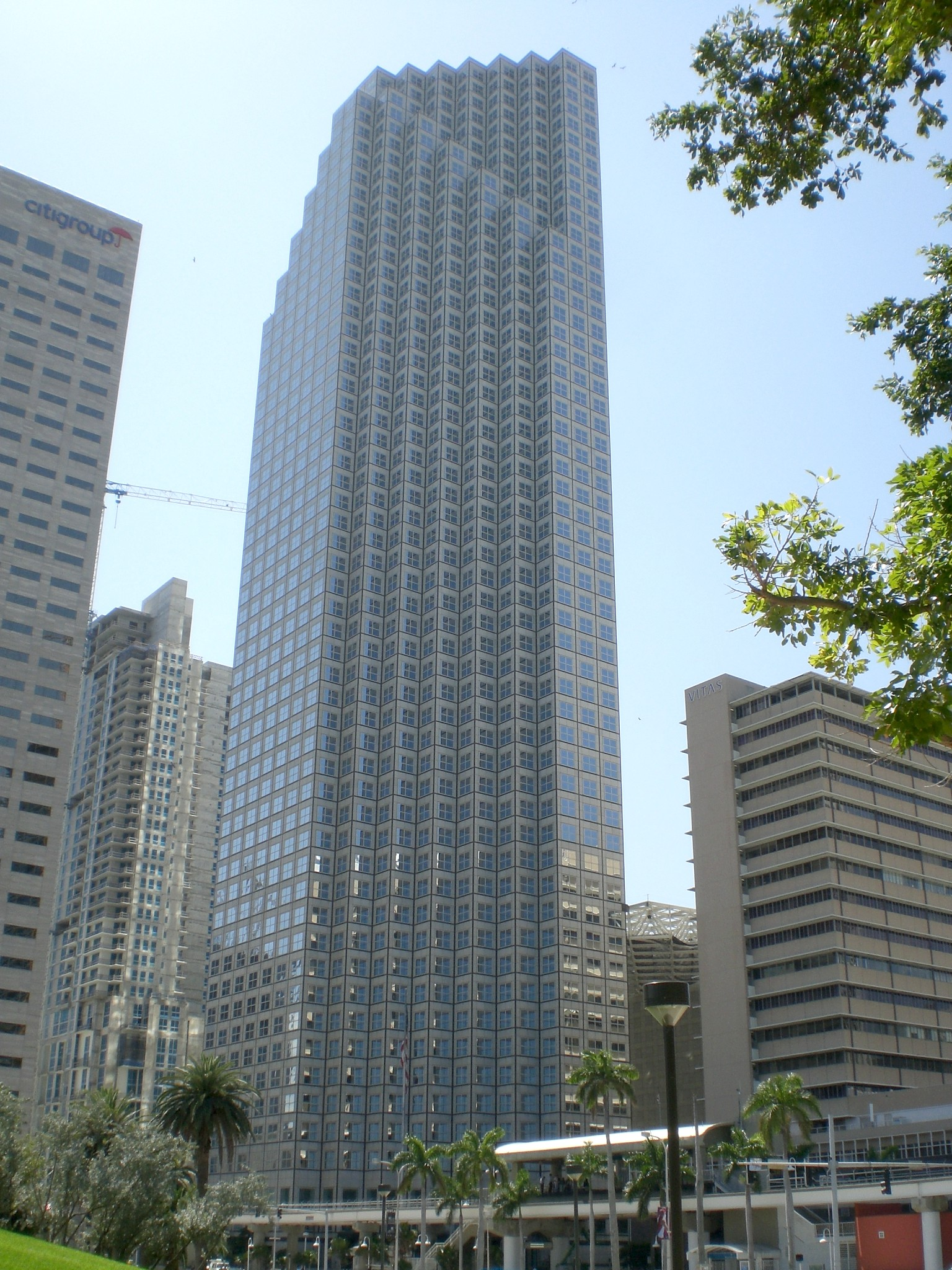 Digital photo taken by Marc Averette